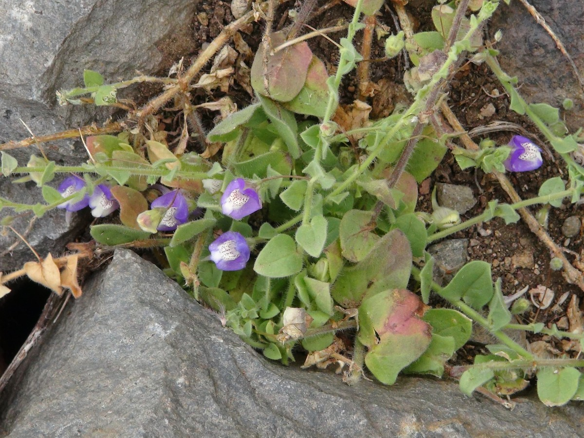 Kickxia commutata subsp. graeca . N Tenerife, SE of San Juan de la Rambla, ca. 200 m.